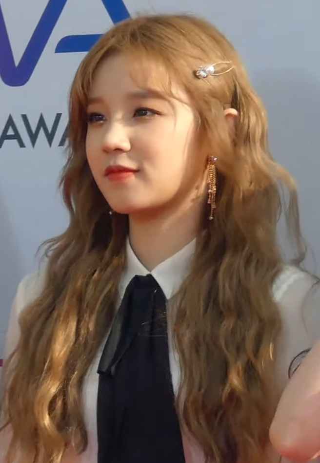 Song Yuqi at The Fact Music Awards on April 24, 2019